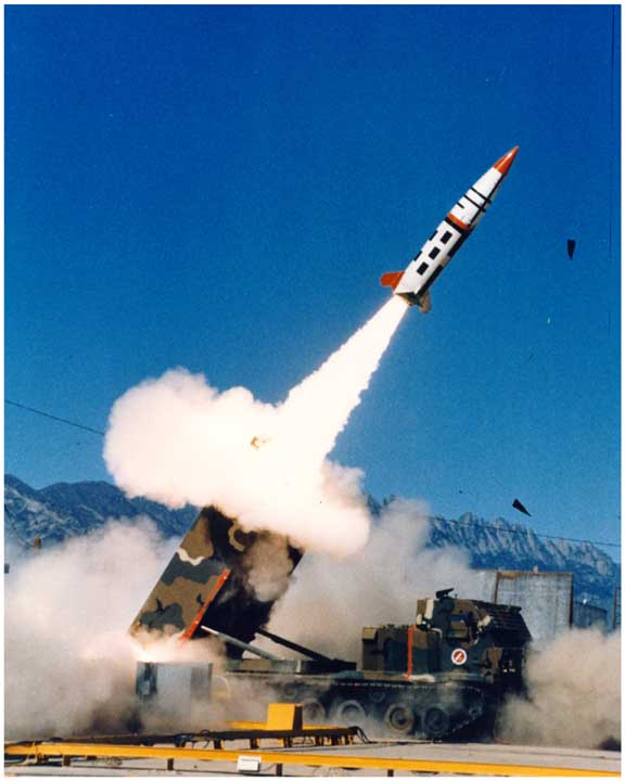 ATACMS missile fired from launcher